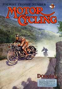 1926 magazine cover featuring a Douglas motorcycle in the Isle of Man TT From The Lordprice Collection This picture is the copyright of the Lordprice Collection and is reproduced on Wikipedia with their permission Source URL